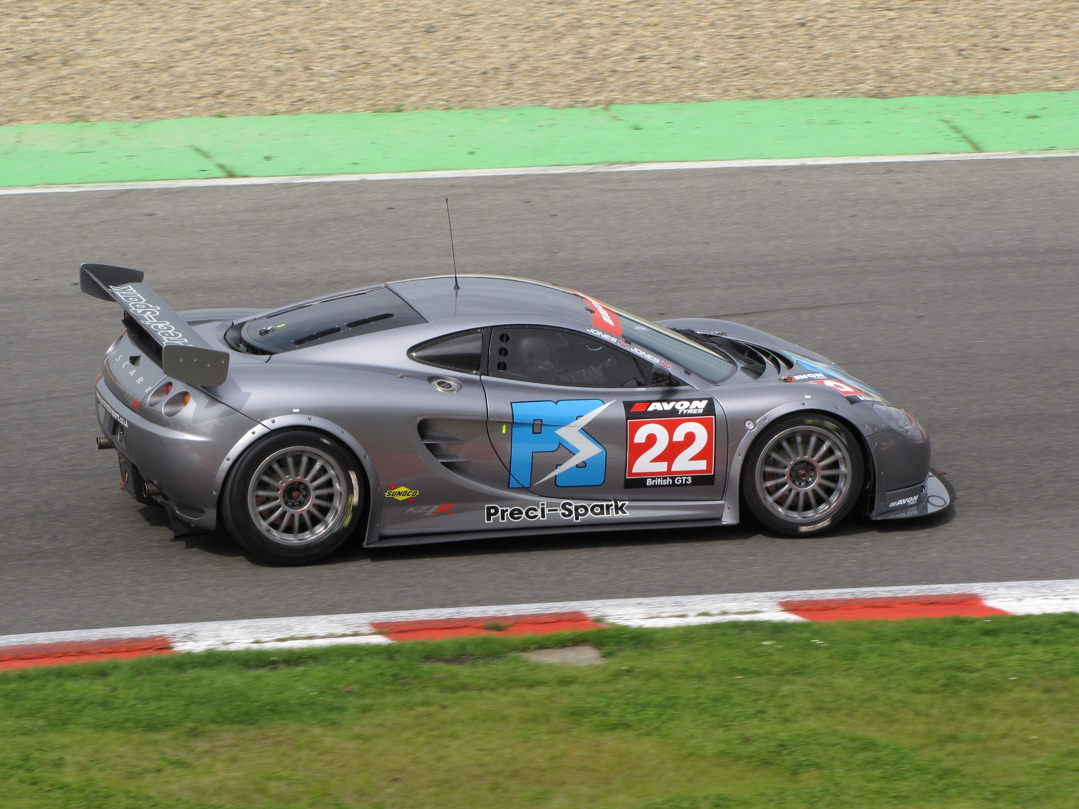 Ascari KZ1-R GT3 of the british GT championship in Spa 2009.